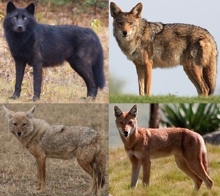 Four members of the genus Canis: the grey wolf, the coyote, the golden wolf and the Ethiopian wolf.